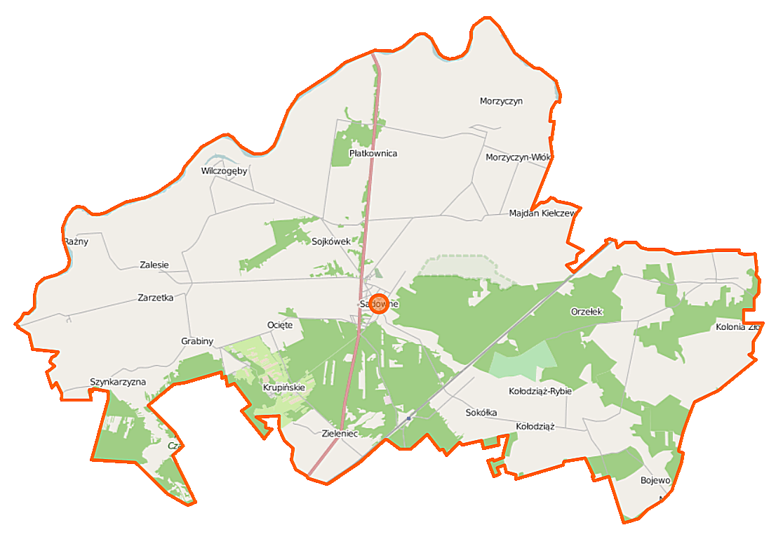 Map of Gmina Sadowne, Poland This map of Sadowne (gmina) was created from OpenStreetMap project data, collected by the community. This map may be incomplete, and may contain errors. Don't rely solely on it for navigation. Border coordinates52.707421.7042←↕→22.010152.5778